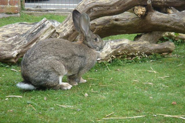 British Giant rabbit. at Witton Park Country Park Visitors Centre pet area. She was huge!